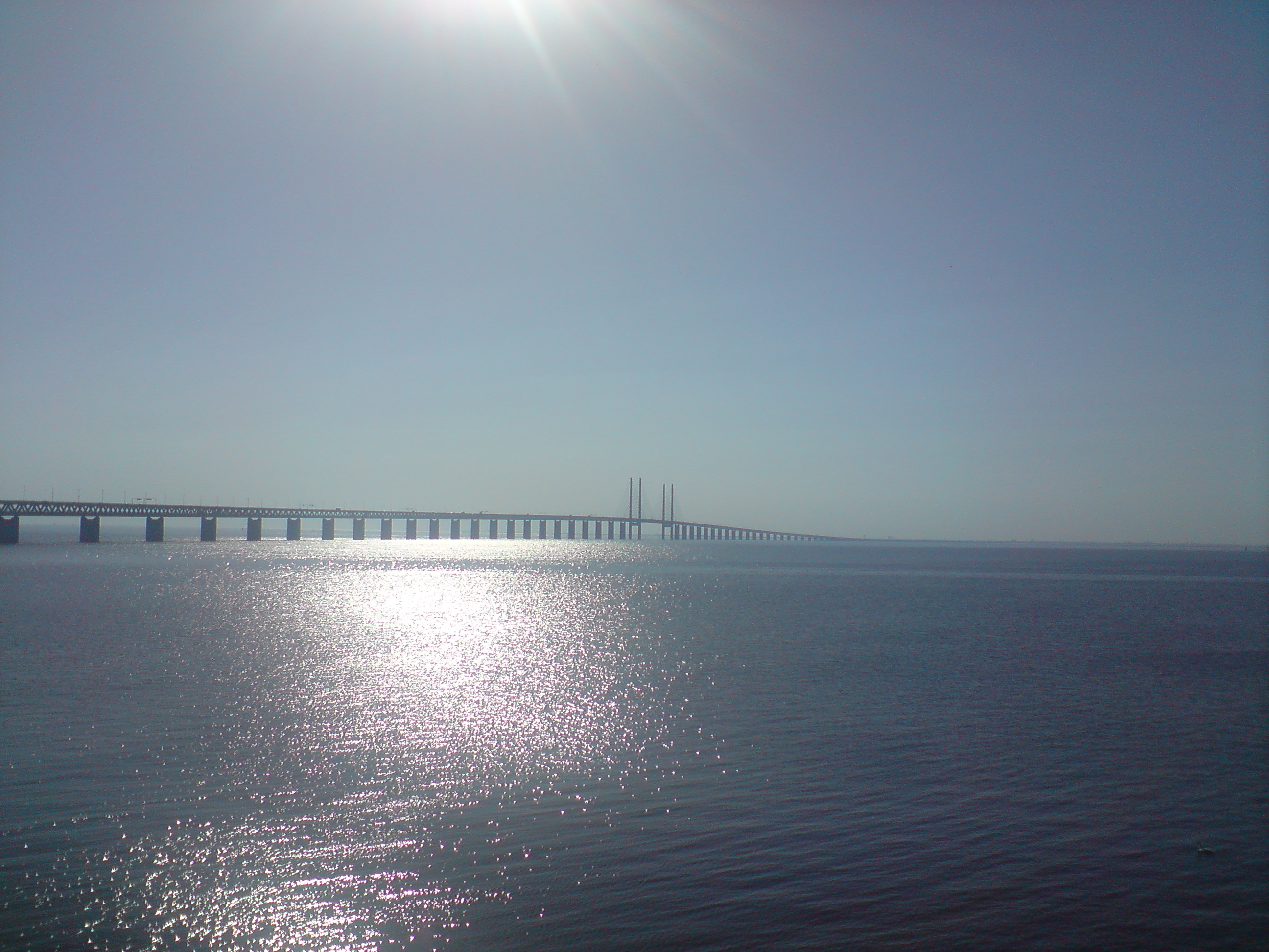 Öresundsbron från Lernacken